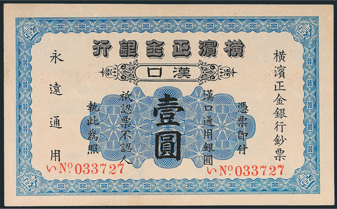 1 Yüan Note issued by the Hankow Branch